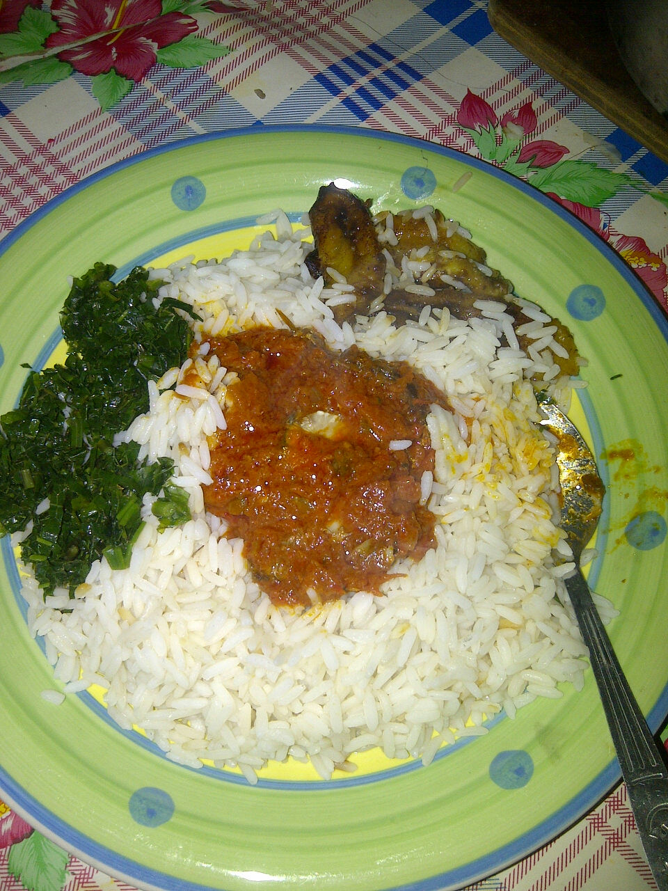 Rice and green pumpkin and fried fish This is an image of food from Nigeria